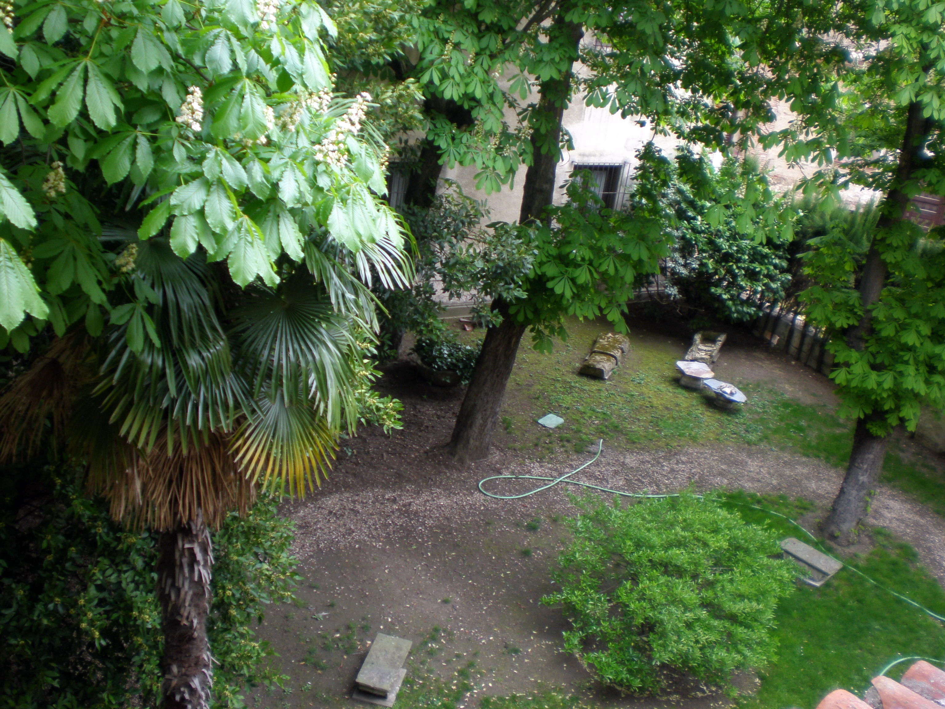 Garden in Fabio Nelli's palace. View from the old arena.